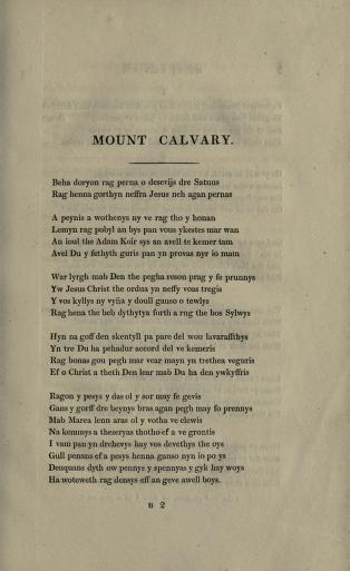 Page 3 of Mount Calvary, edited by Davies Gilbert, the first edition of the 14th-century Cornish poem Pascon agan Arluth.